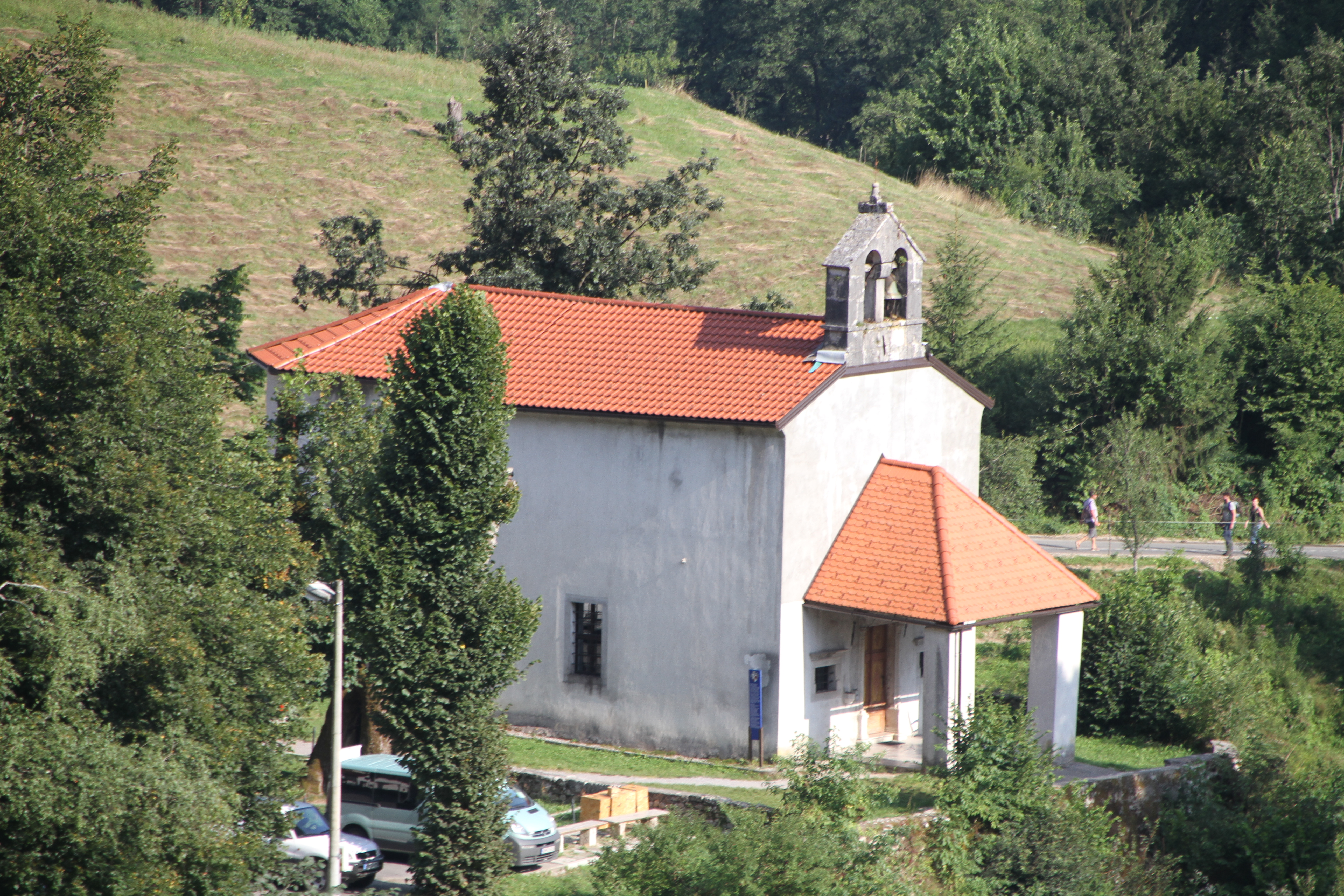 Predjama village, western Slovenia